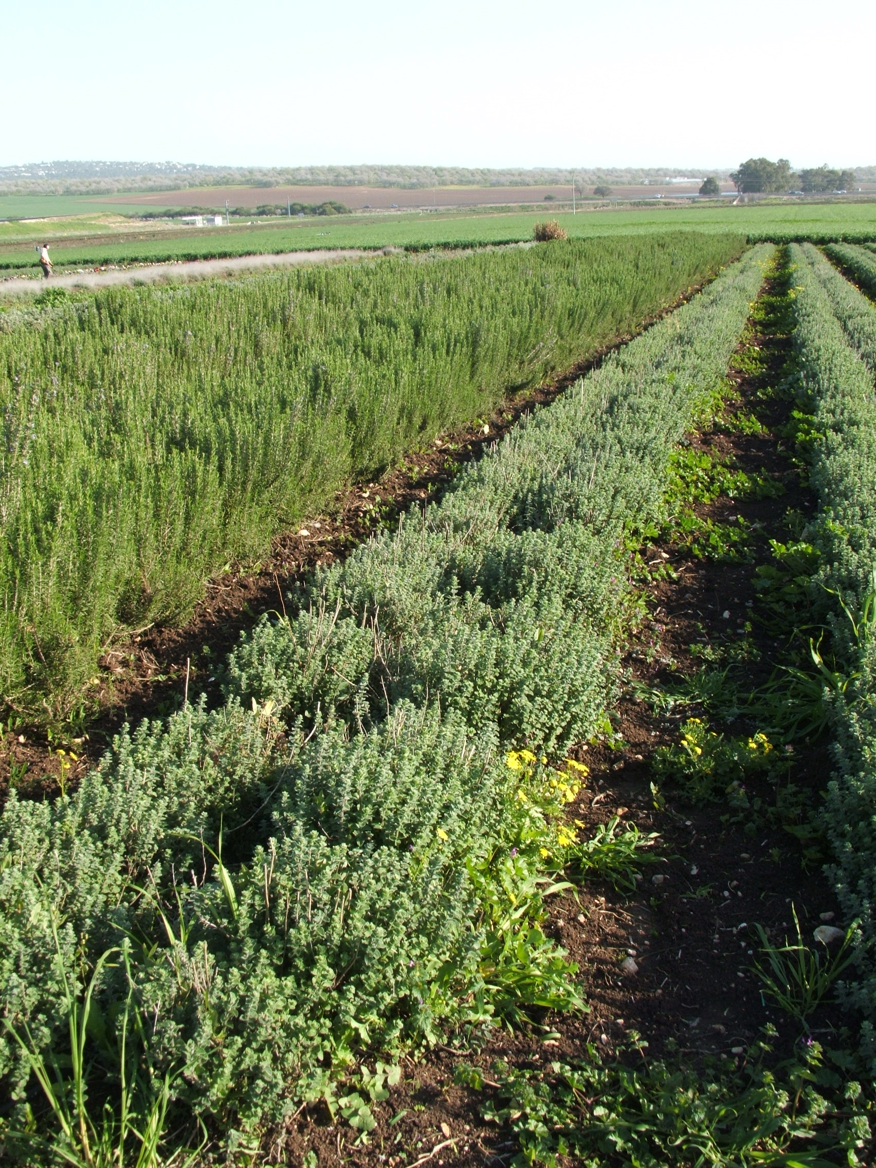 Landscape of agricultural field